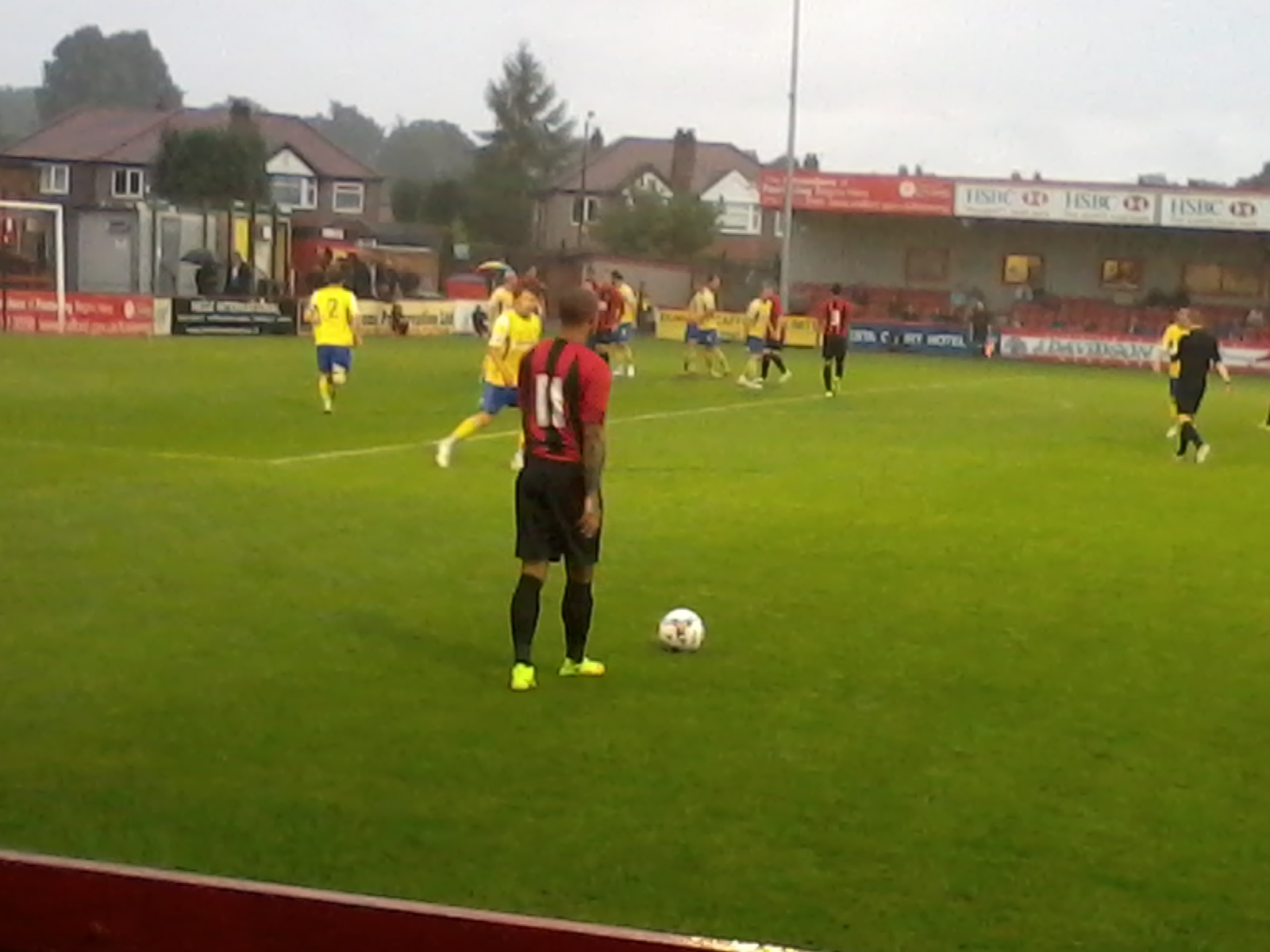 Match action showing English footballer Ashley Vincent playing for Shrewsbury Town in a practice match against Altrincham. 1 August 2014.